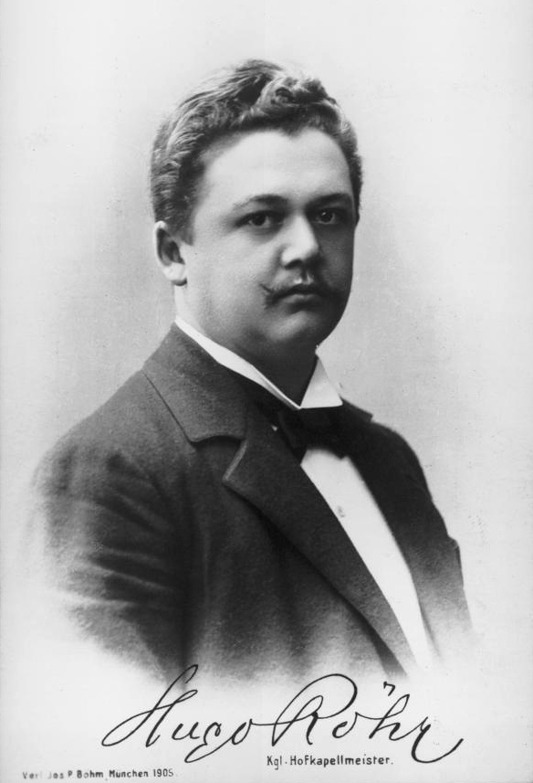 German composer and dirigent Hugo Röhr (1866–1937)